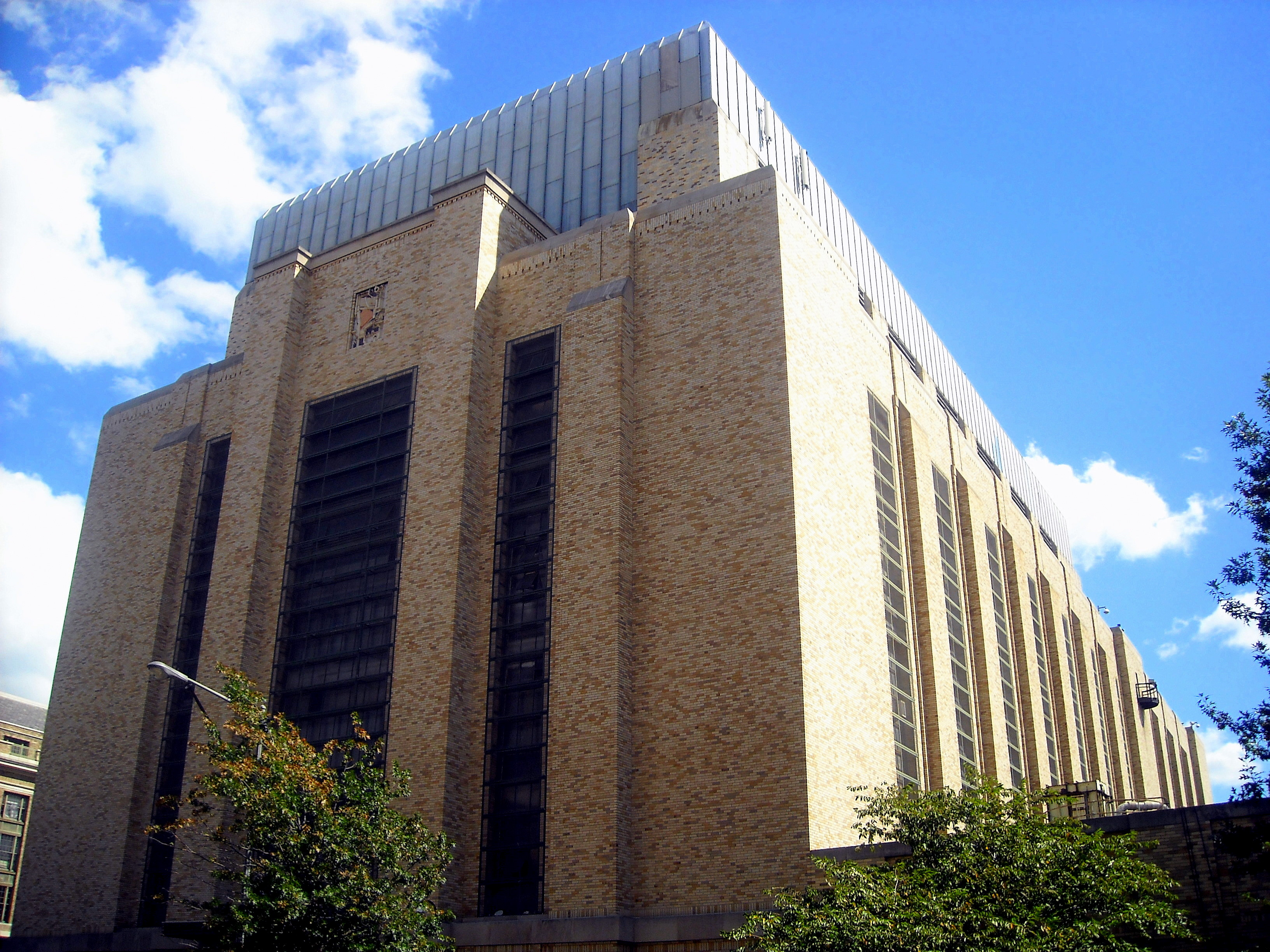 The Central Heating Plant, designed by Paul Philippe Cret in 1933, located at 325 13th Street, NW in Washington, D.C. The Art Deco building is listed on the National Register of Historic Places.